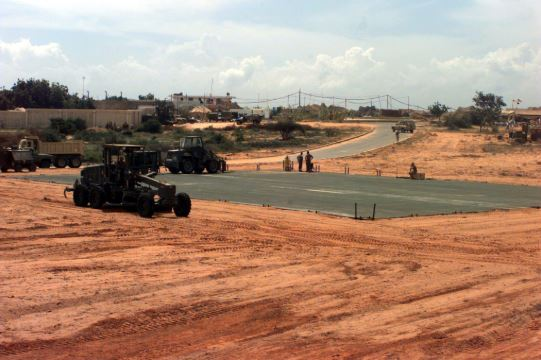 Operation Restore Seabees from Amphibious Construction Battalion One (ACB-1), put the finishing touches on the helicopter landing pad at the American Embassy compound at Mogadishu, Somalia, December 1992. (NARA)